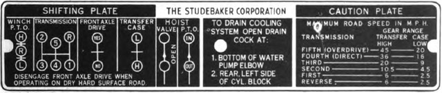 Studebaker US6 dump truck w/winch shift pattern plate fr US Army TM 9-807